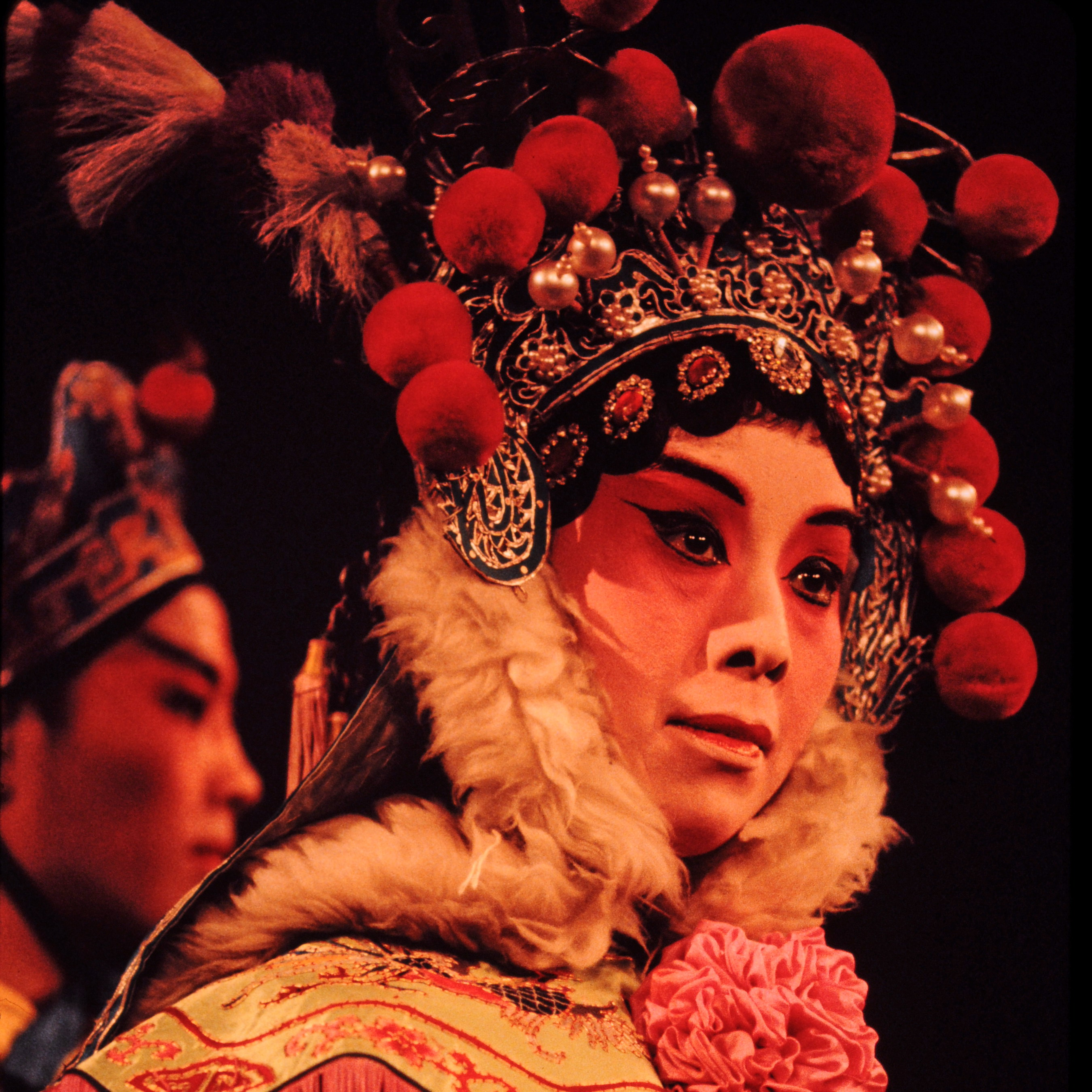 Head of an actor during a Peking opera performance